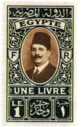 1 Livre Kingdom of Egypt stamp Fouad I